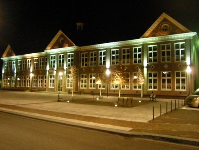 St. Joseph school Tegelen, Netherlands